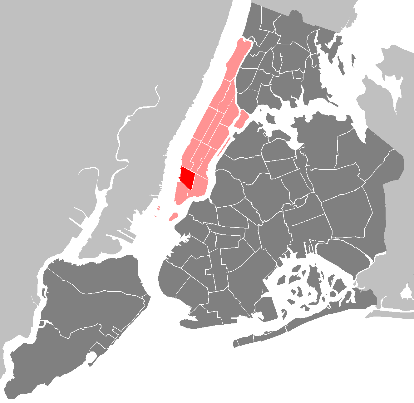 Category:Maps of New York City: New York City - Manhattan - Community Board 2.PNG